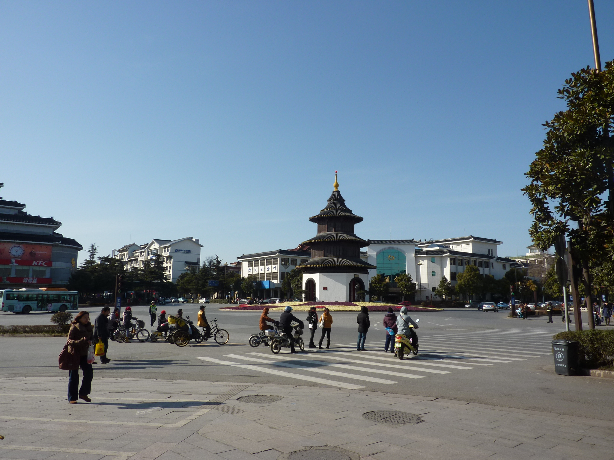 Yangzhou's Wenchang Pavilion, seen from the southeast